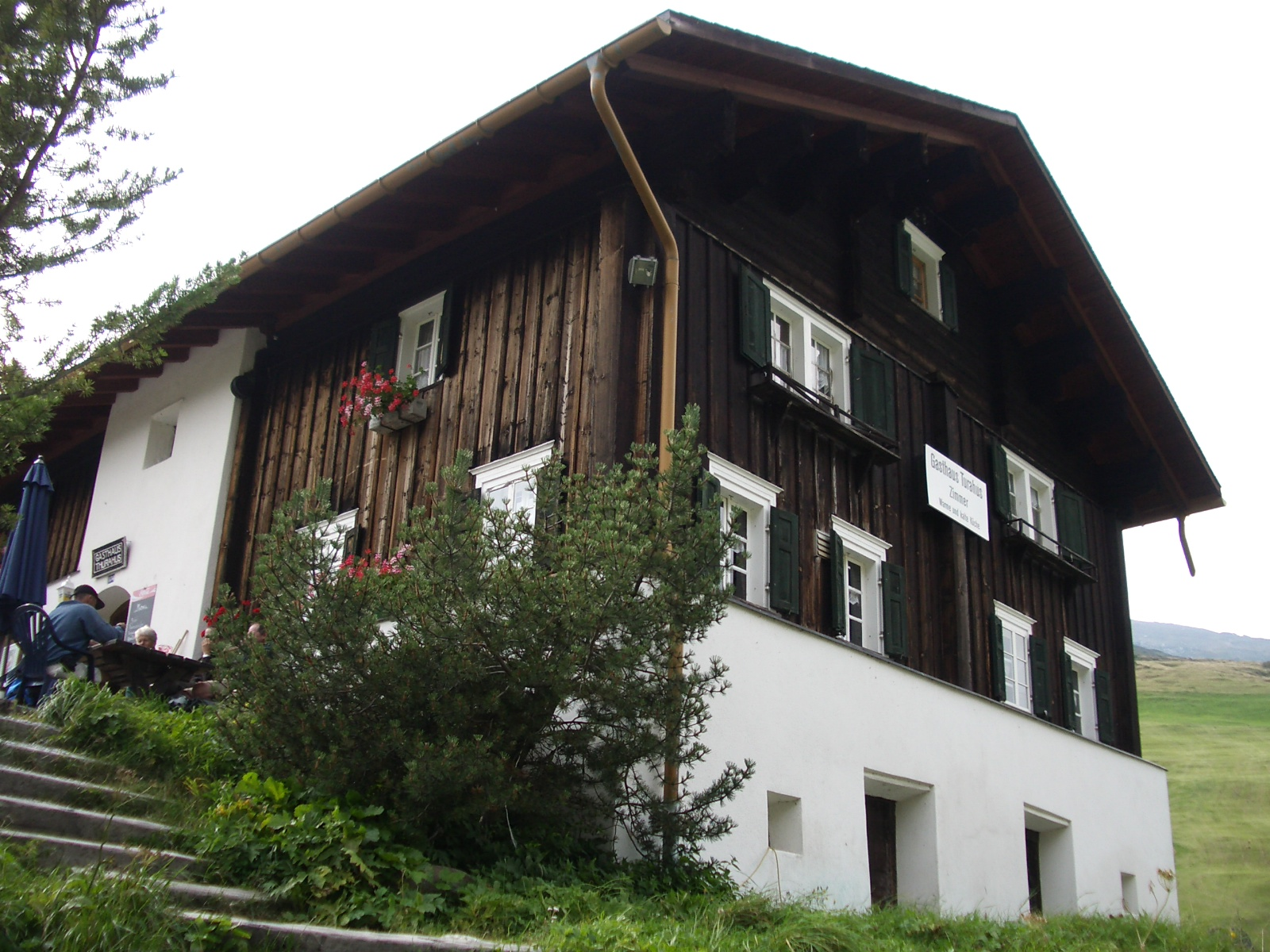 Thalkirch GR, Switzerland